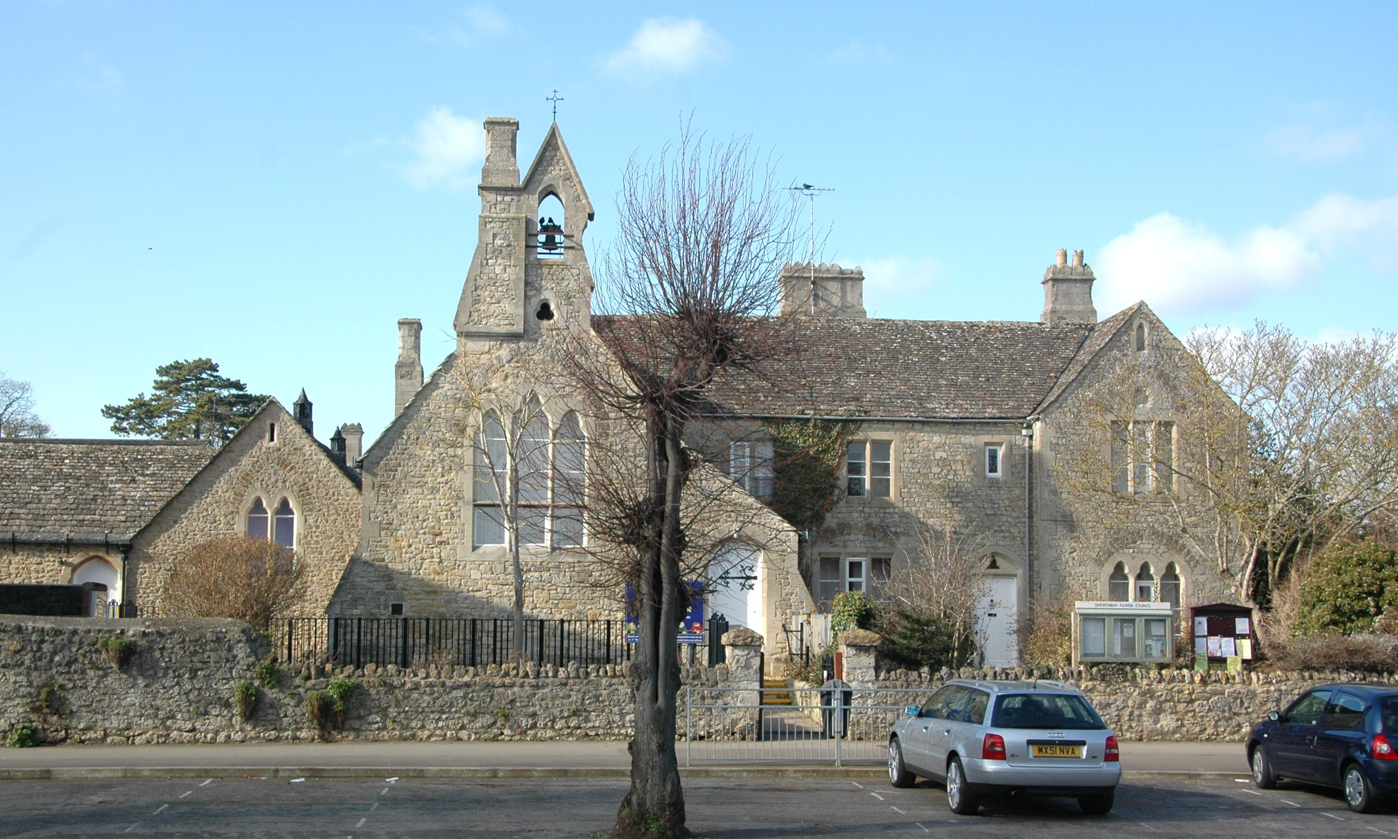 St Andrew's Church of England Controlled Primary School, High Street, Shrivenham